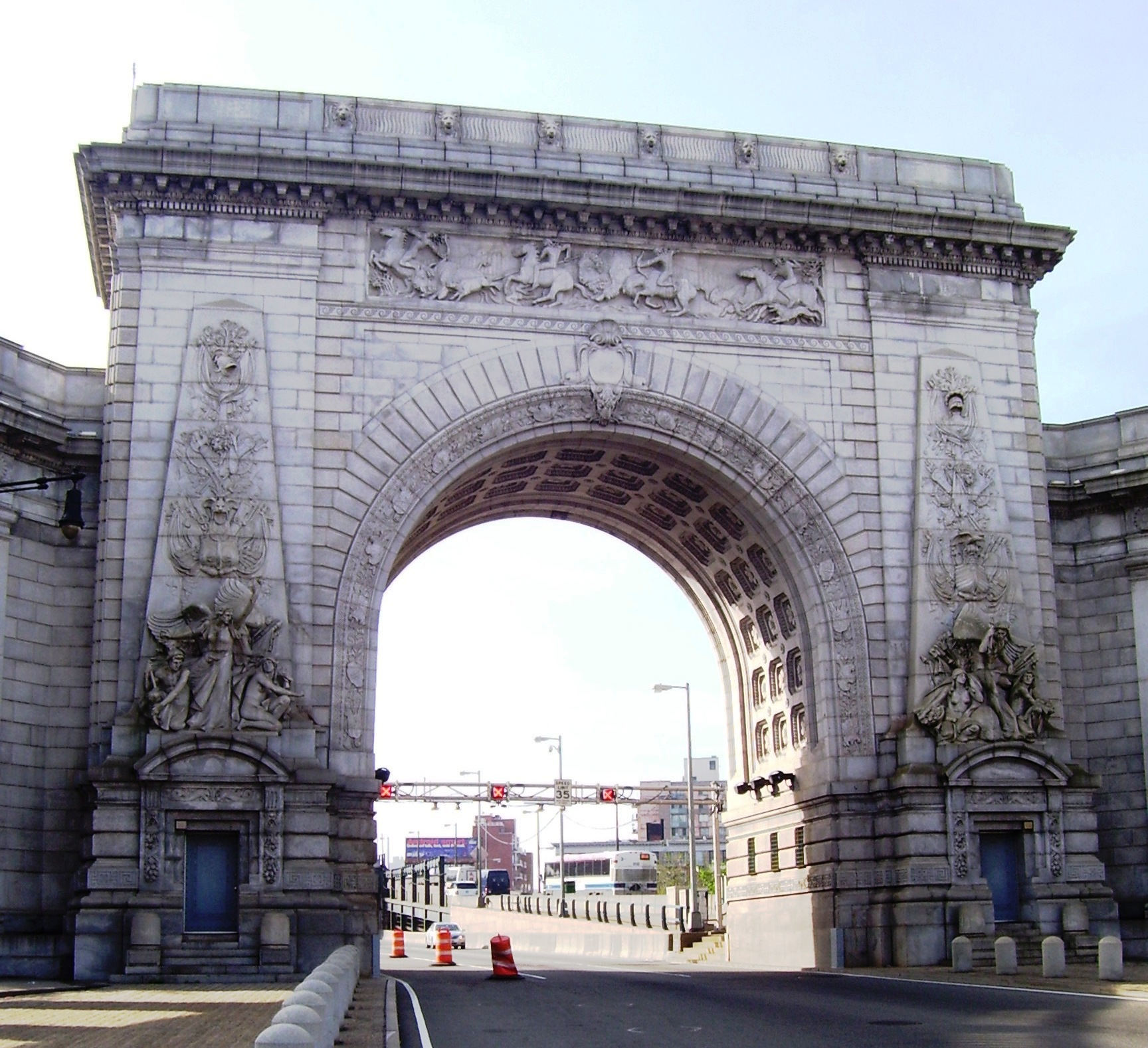 Closer view of the triumphal arch in the center of the Manhattan Bridge Arch and Colonnade. The decoration includes pylons which were sculpted by Carl A. Heber and a frieze called "Buffalo Hunt" by Charles Rumsey. The arch and colonnade were repaired and restored in 2000. (Source: Guide to NYC Landmarks (4th ed.))